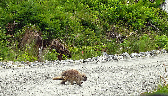 A porcupine risks crossing a road near Prince Rupert BC.